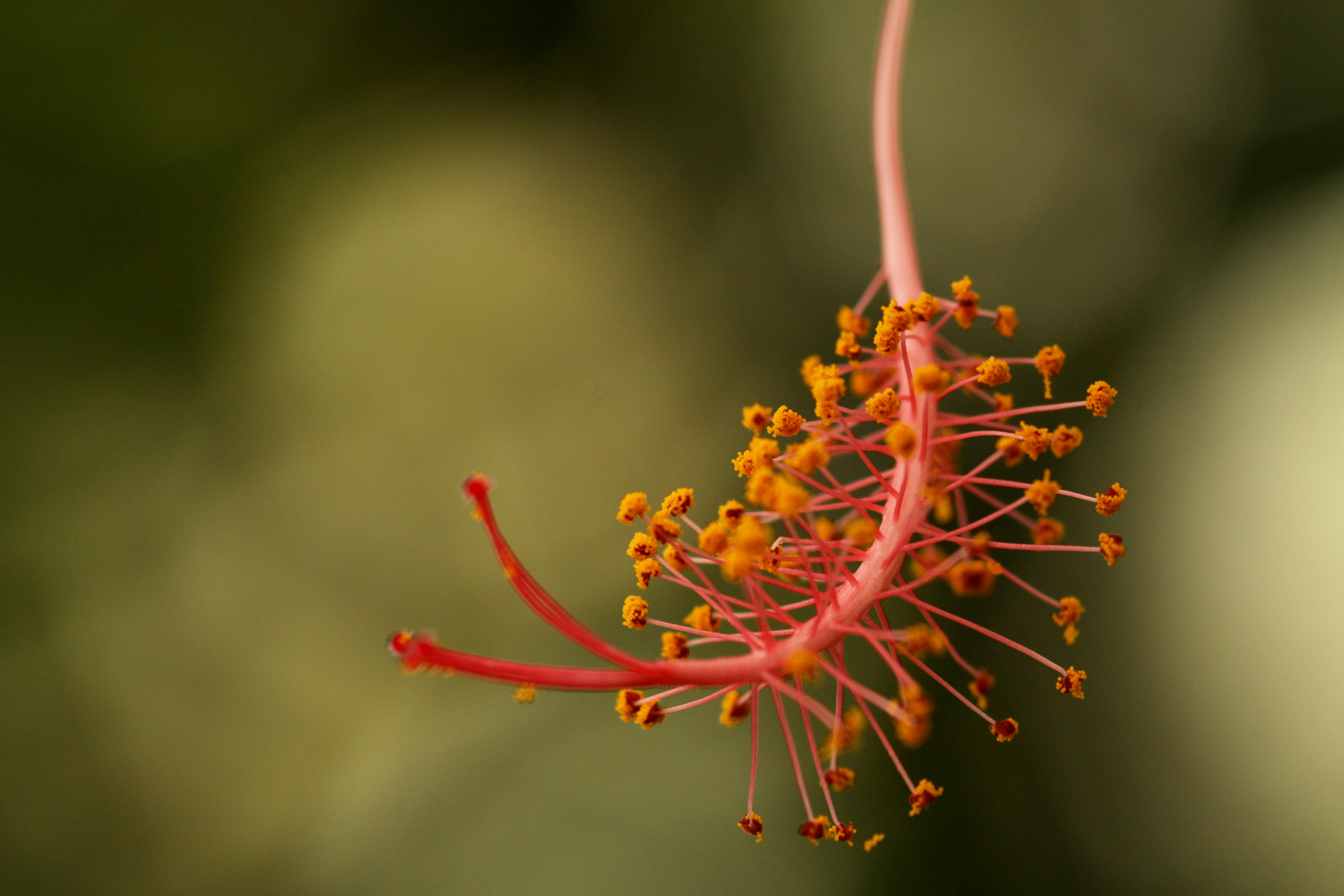 Detail of Hibiscus schizopetalus in Fata Morgana, part of Prague botanic garden in Troja, Czech Republic